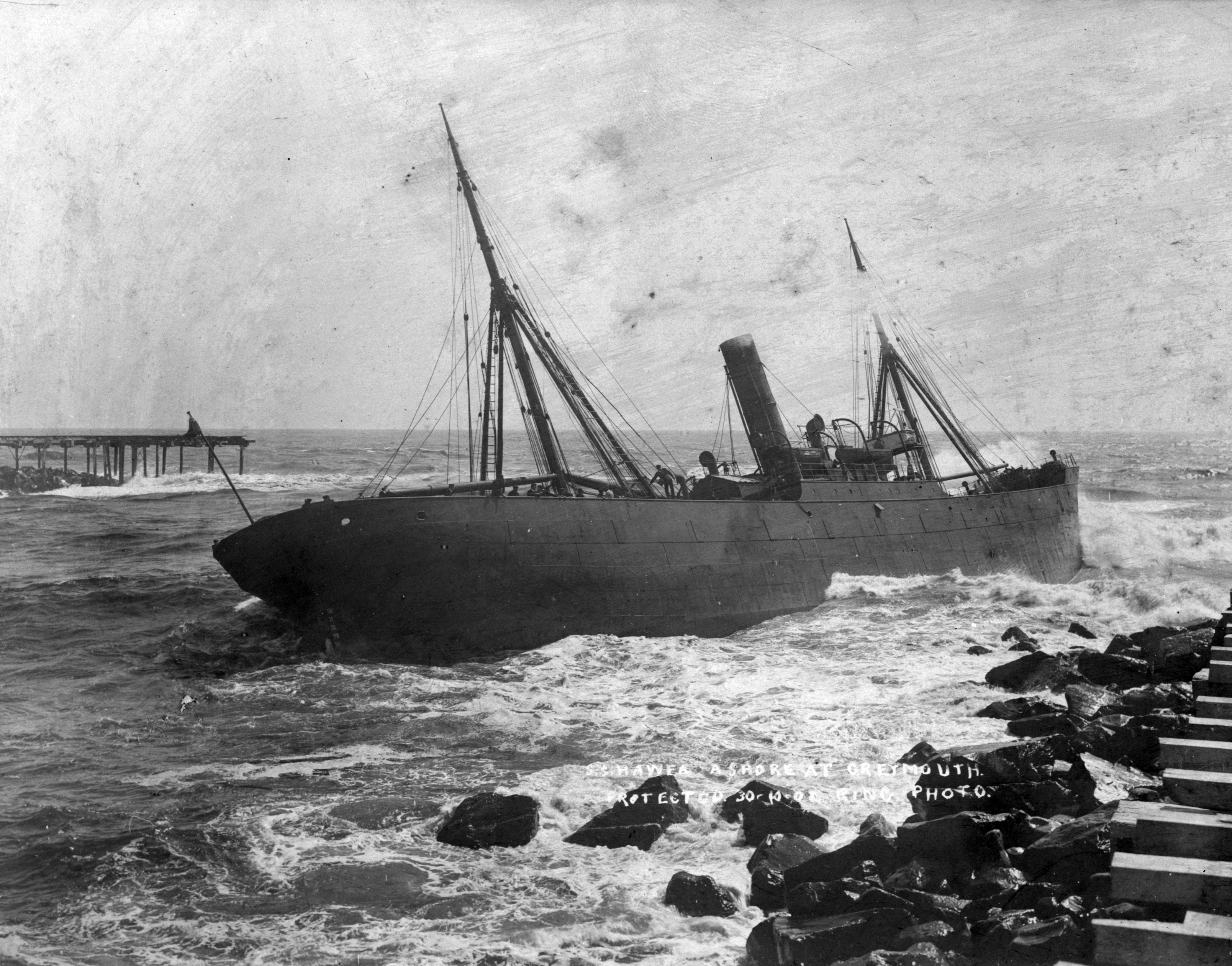 The steam ship "Hawea" run ashore at the entrance to the Grey River, Greymouth, 30 October 1908 Reference Number: 1/2-137181-F Photographer: James Ring Original negative Photographic Archive, Alexander Turnbull Library Find out more about this image from the Alexander Turnbull Library.